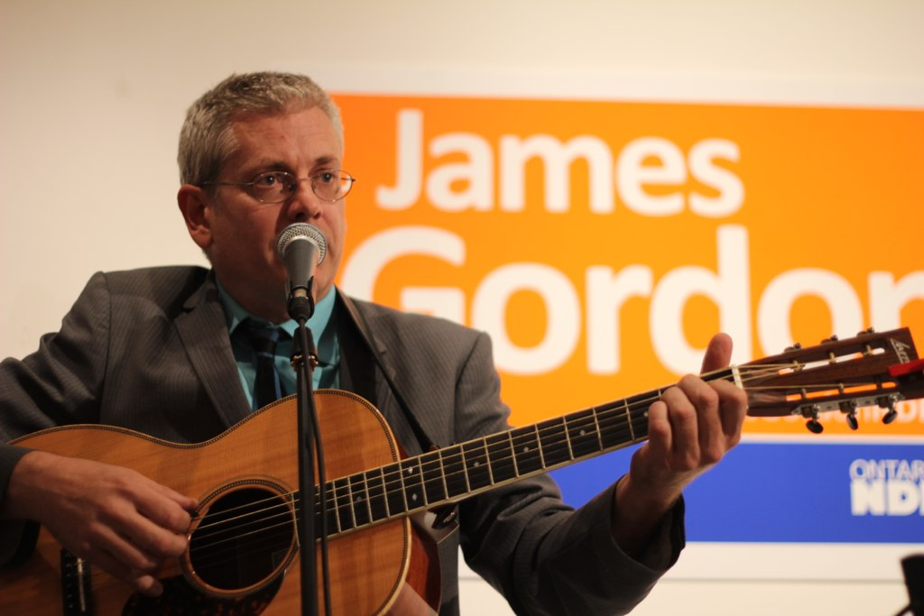 MP Charlie Angus motivates Guelph through song.